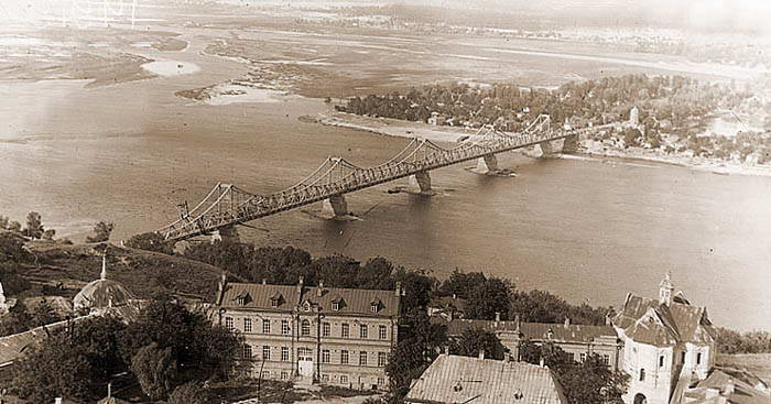 Evhenii Bosh Bridge of the Bridges of Kiev. Photo taken in 1930s.